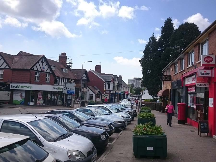 Station Road, Llanishen, Cardiff, the main shopping street of the district. Cardiff Tax Offices in the far dustance.